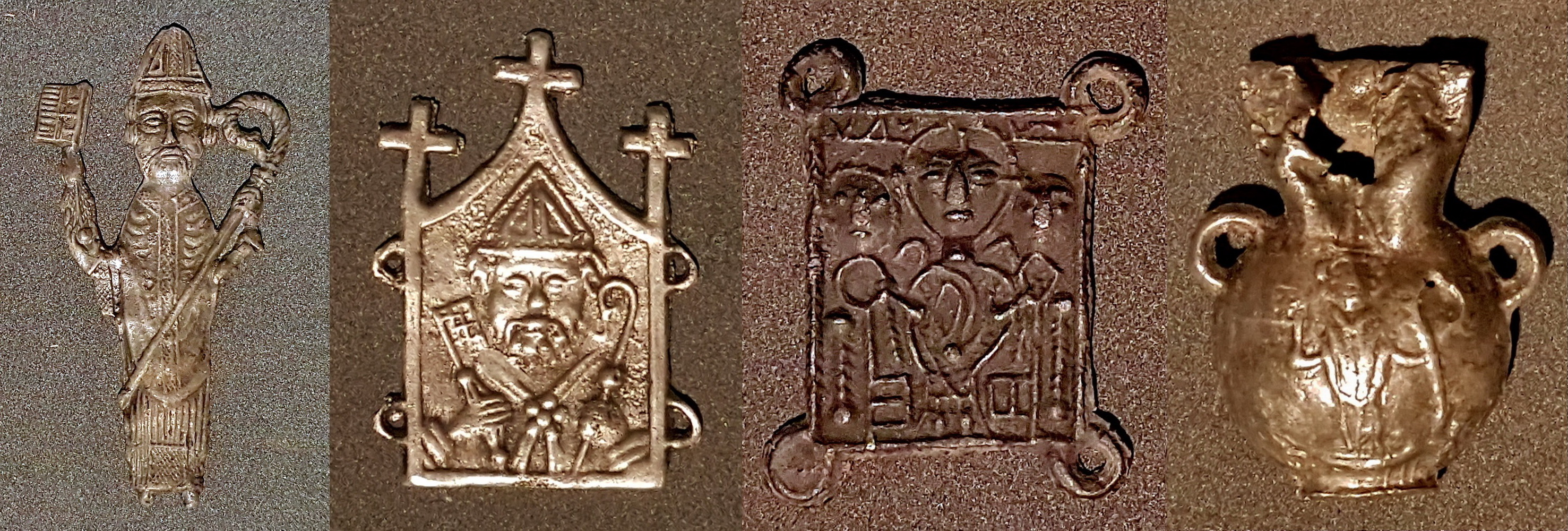 Montage of 4 photos of pilgrim badges of Saint Servatius in the Treasury of the Basilica of Saint Servatius in Maastricht, Netherlands. All images have been uploaded to Wikimedia Commons with a free license: File:Schatkamer_St-Servaasbasiliek,_Maastricht,_pelgrimsteken_St-Servaas_2.jpg File:Schatkamer_St-Servaasbasiliek,_Maastricht,_pelgrimsteken_St-Servaas_3.jpg File:Schatkamer_St-Servaasbasiliek,_Maastricht,_pelgrimsteken_St-Servaas_1.jpg File:Schatkamer_St-Servaasbasiliek,_Maastricht,_pelgrimsampulle_(Maastricht,_XV).jpg